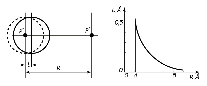 trasing of the original file Polyarizciya.png